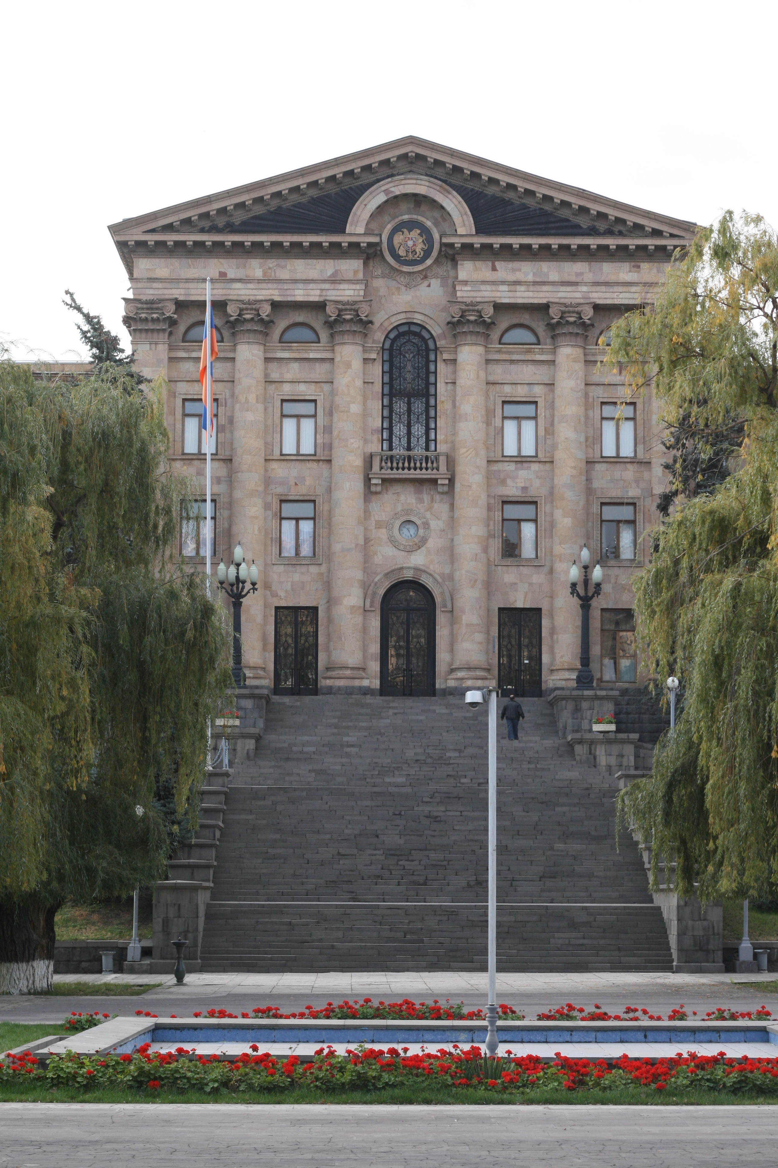 National Assembly of the Republic of Armenia, Yerevan, Armenia.